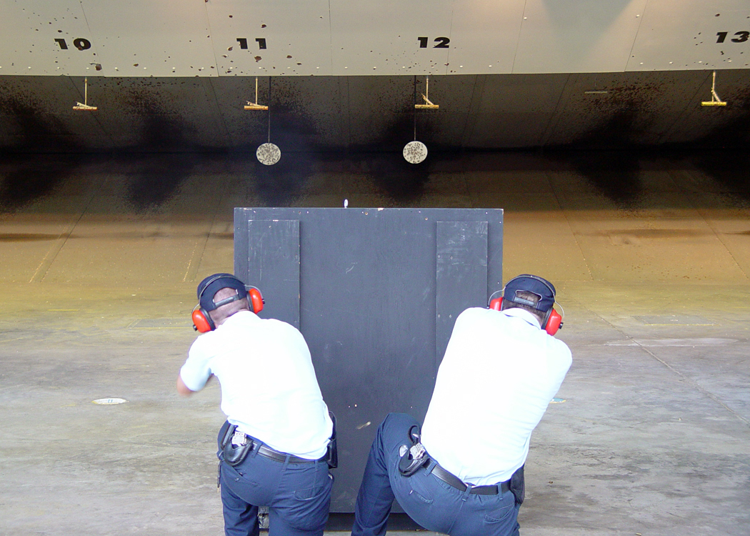 CGIS agents learn how to shoot around objects in order to prepare them for real world scenarios at the federal training center in Georgia Dec. 12, 2008.